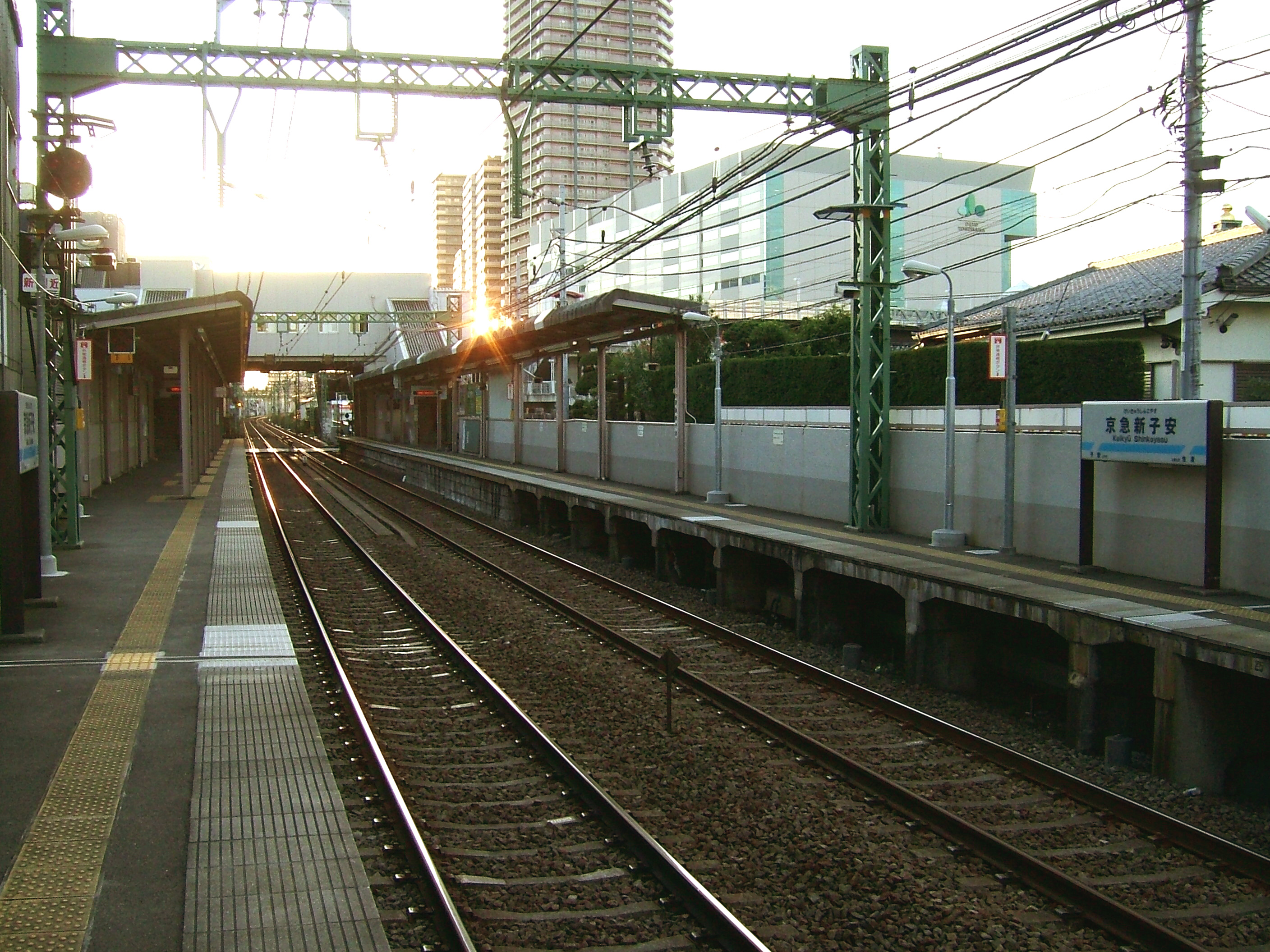 Keikyū Shin-Koyasu Station platform (Keihin Electric Express Railway Main Line)